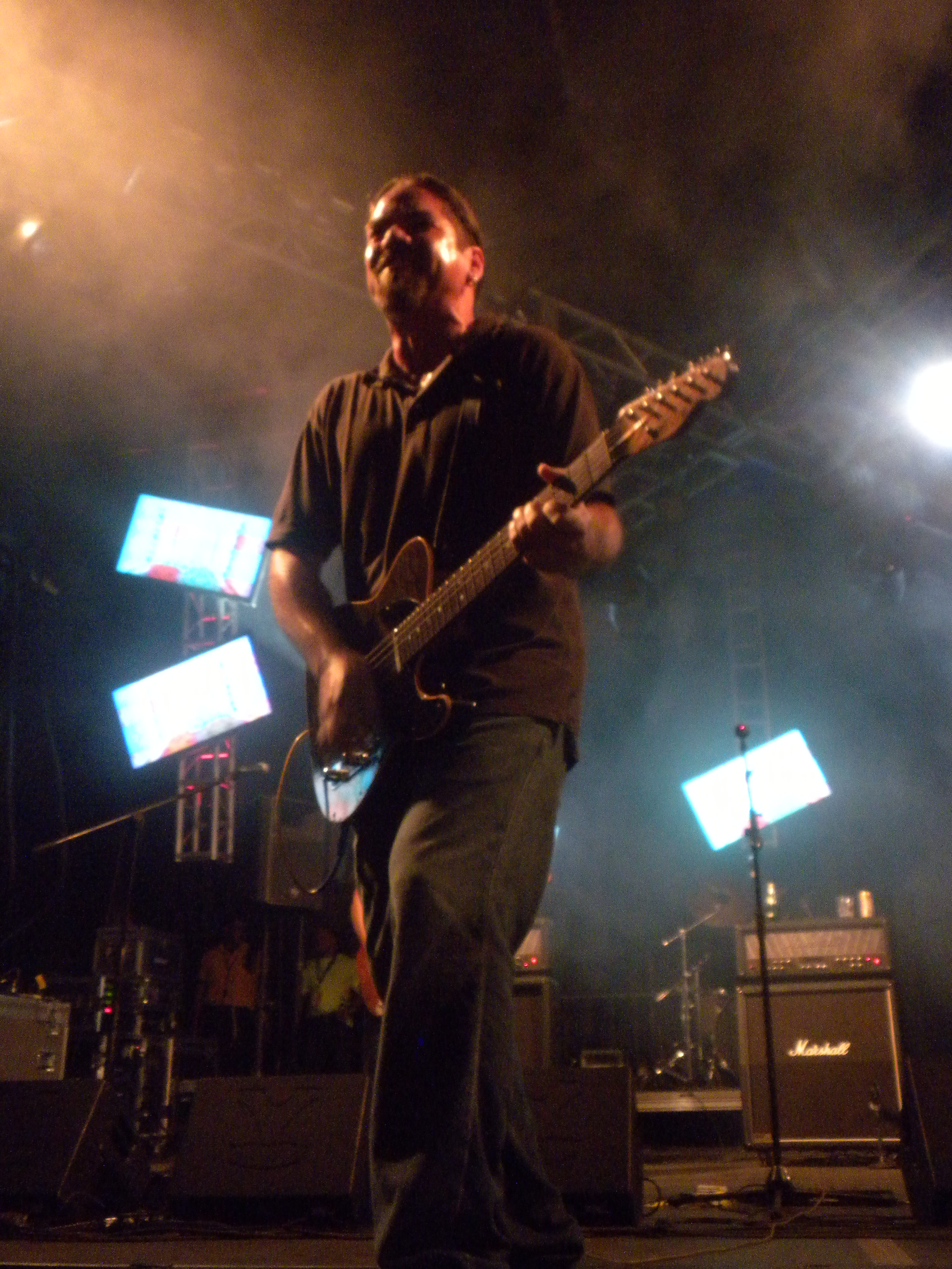 Tito Auger performing with Fiel a la Vega in Mayaguez, Puerto Rico